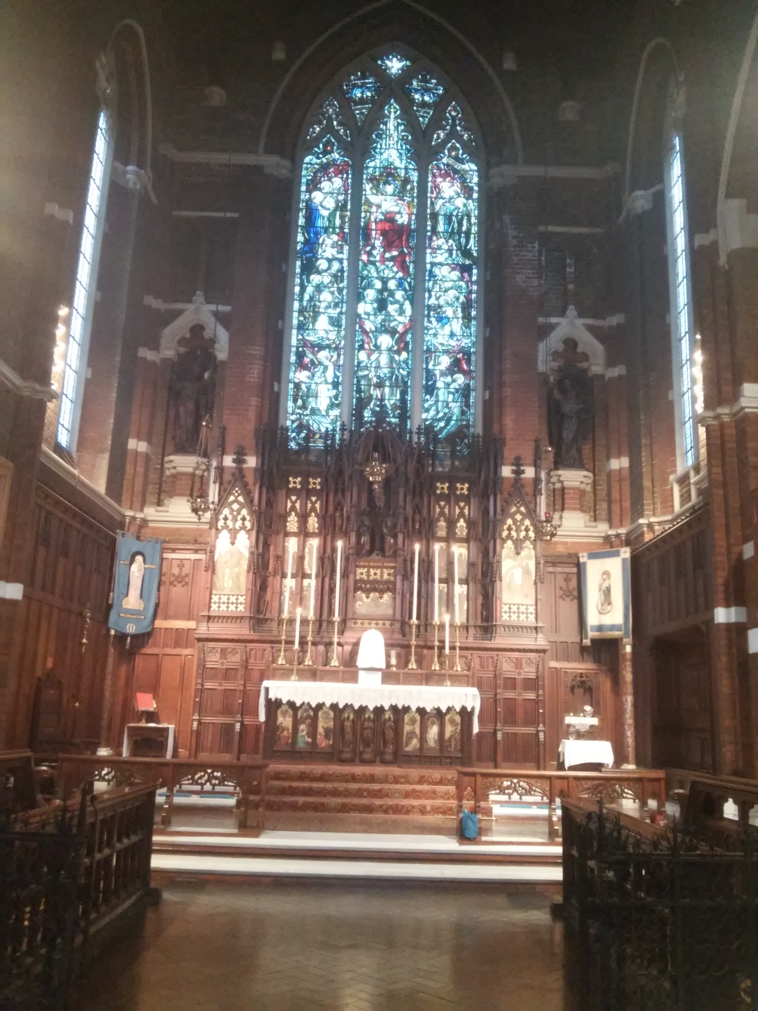 The chancel of St Michael and All Angels church, Wlathamstow, London E17. Architect Joseph Maltby Bignell (1827-87).